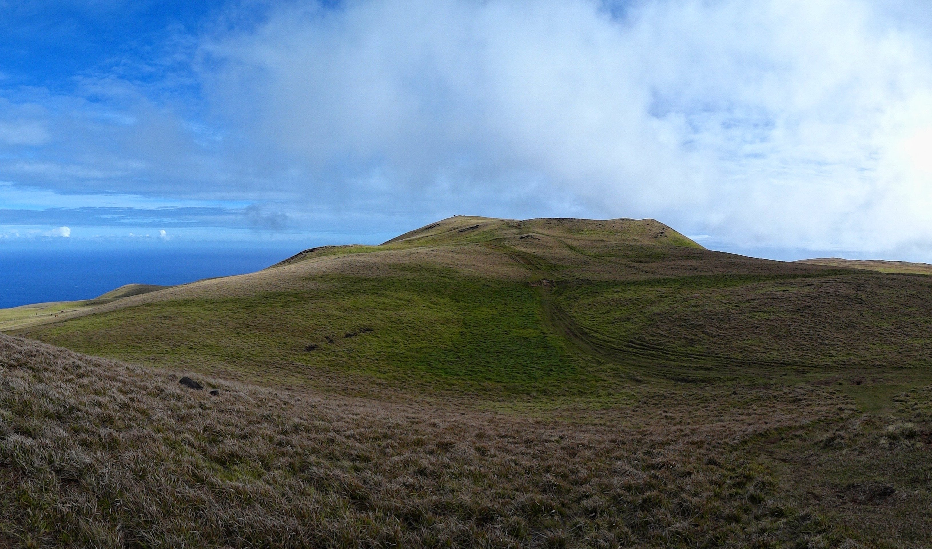 The top of extinct volcano Terevaka on Easter Island, Chile, 507 meters above sea level, photographed from the next top to its south.